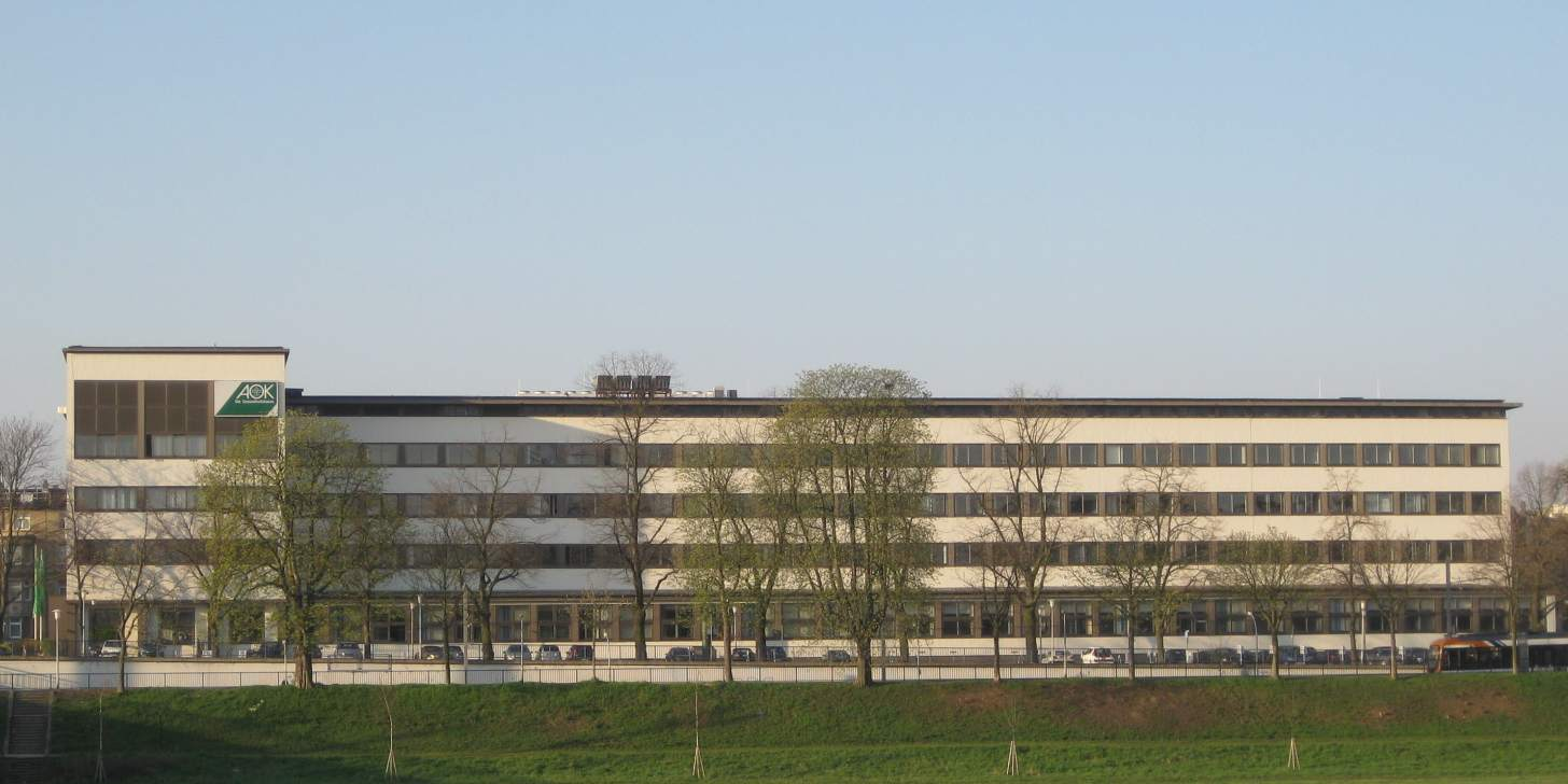 Building of "New Objectivity", Mannheim, Germany